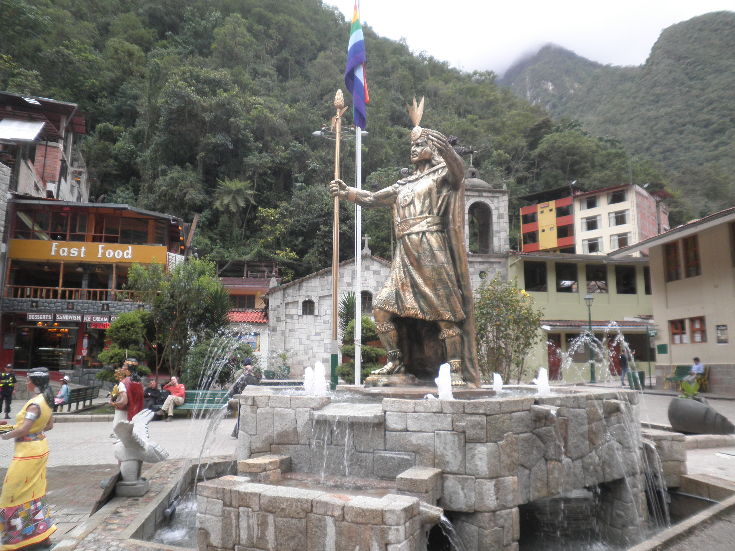 Statue of Pachacutec, Aguas Calientes, Peru